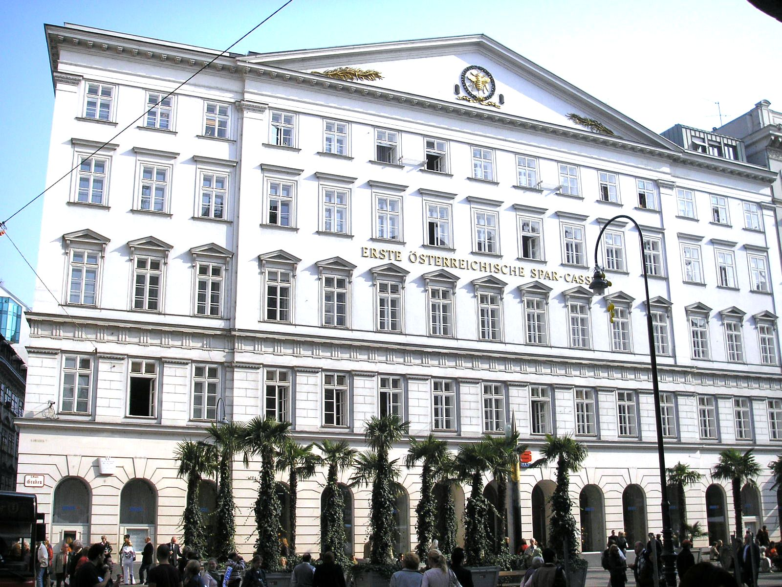 Image of the Erste österreichische Spar-Casse bank building in Vienna's first district Innere Stadt, located at the Graben.